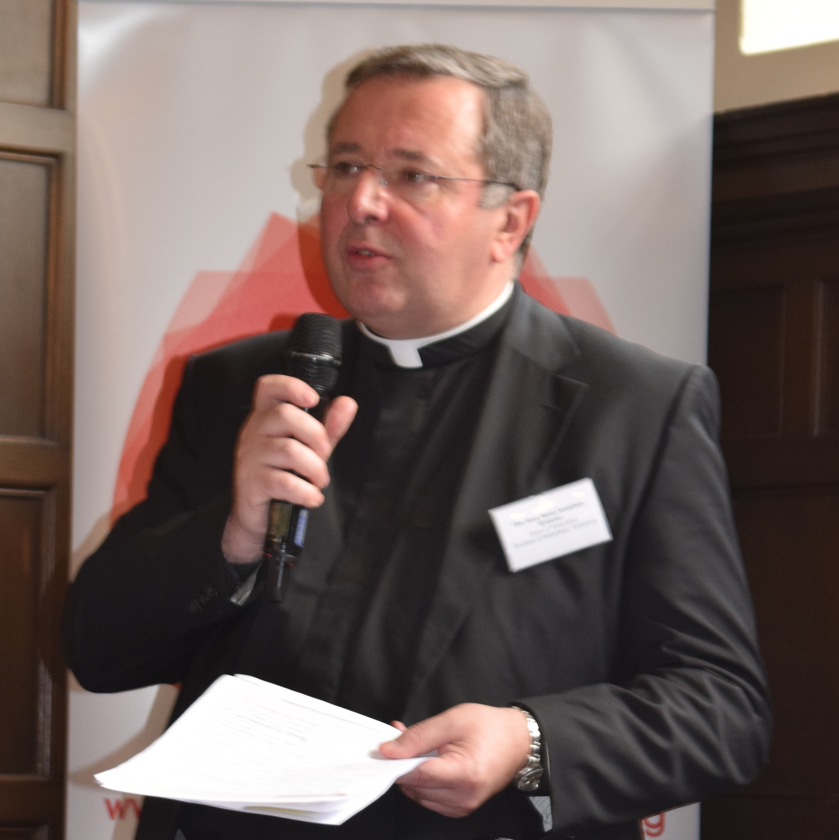 The Very Reverend Jonathan Greener, Dean of Wakefield